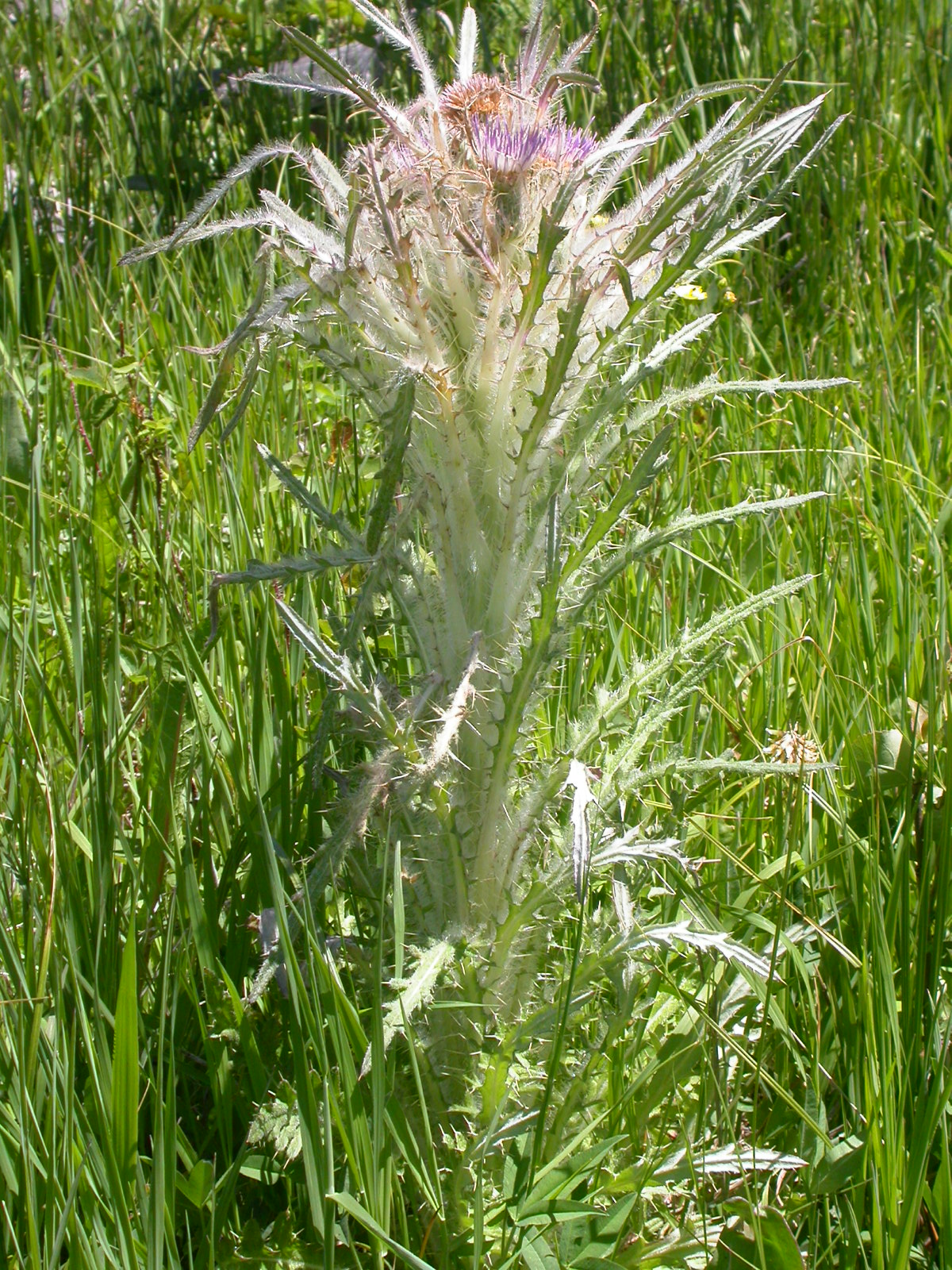 This mountain meadow inhabiting species is generally distinctive in its long copious stem and leaf hairs and inflorescences with congested white to pinkish or light purplish flowering heads that are surrounded by very long stem leaves.